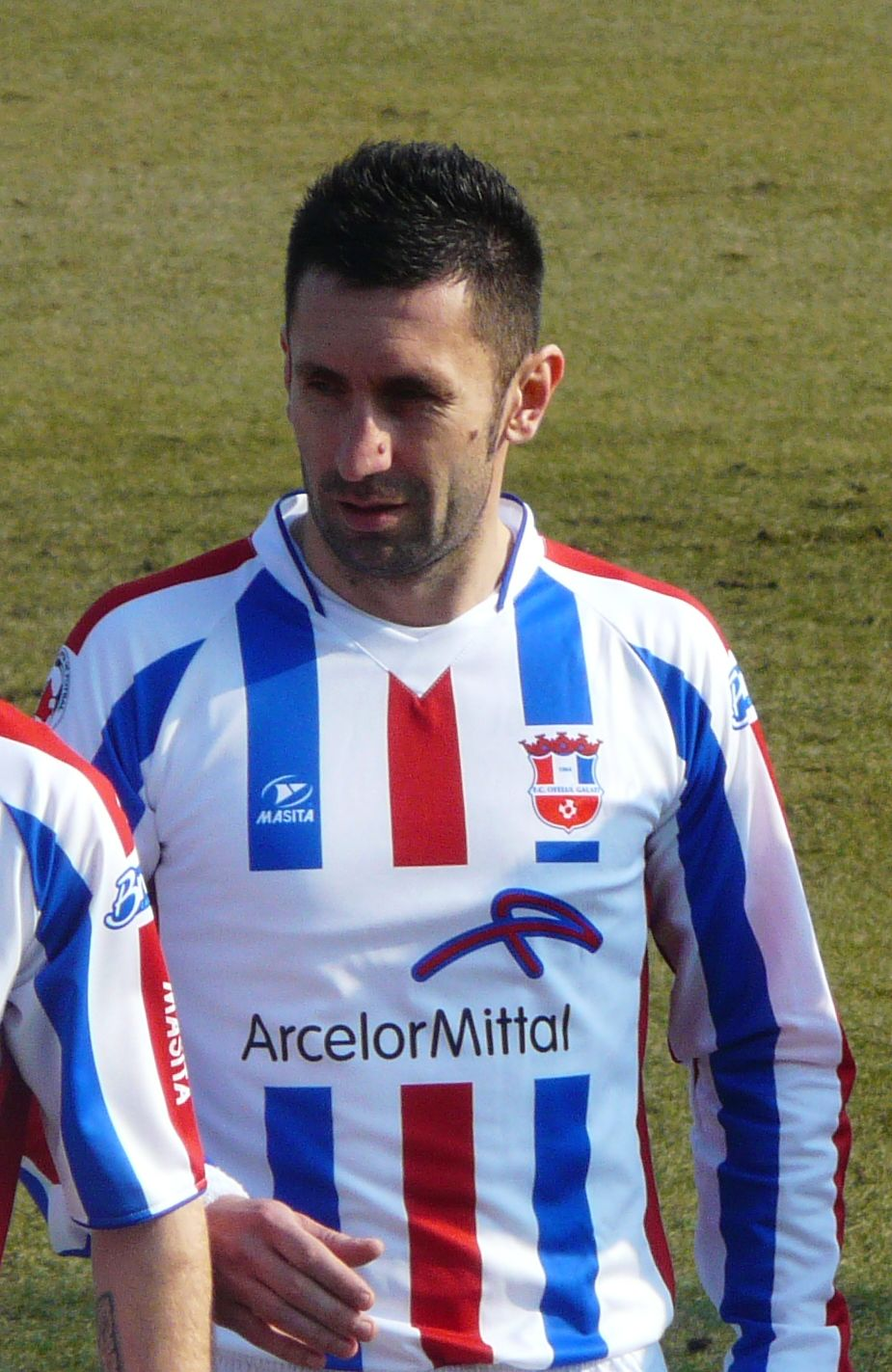 Gabriel Paraschiv in March 2011, during Otelul - Rapid